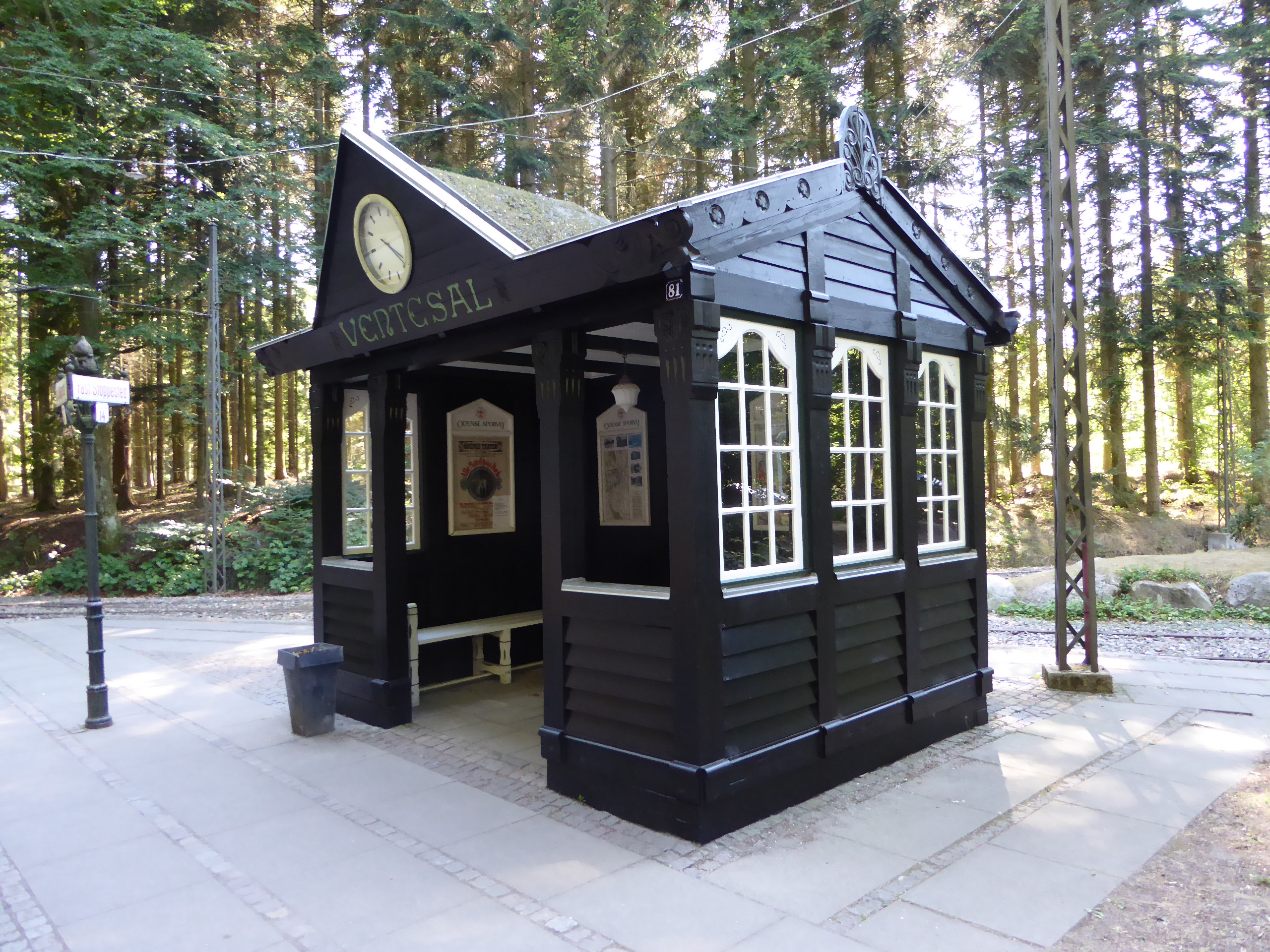 Old tram shelter from Fruens Bøge in Odense at Eilers Eg at Sporvejsmuseet Skjoldenæsholm in Denmark. The shelter was a gift from Odense when the last part of the museum line to Eilers Eg opened in 1999.